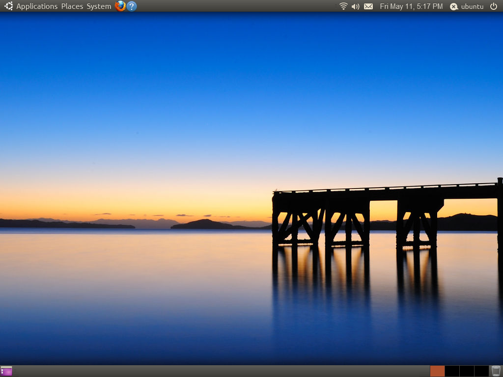 Ubuntu Ambiance theme for litestep.